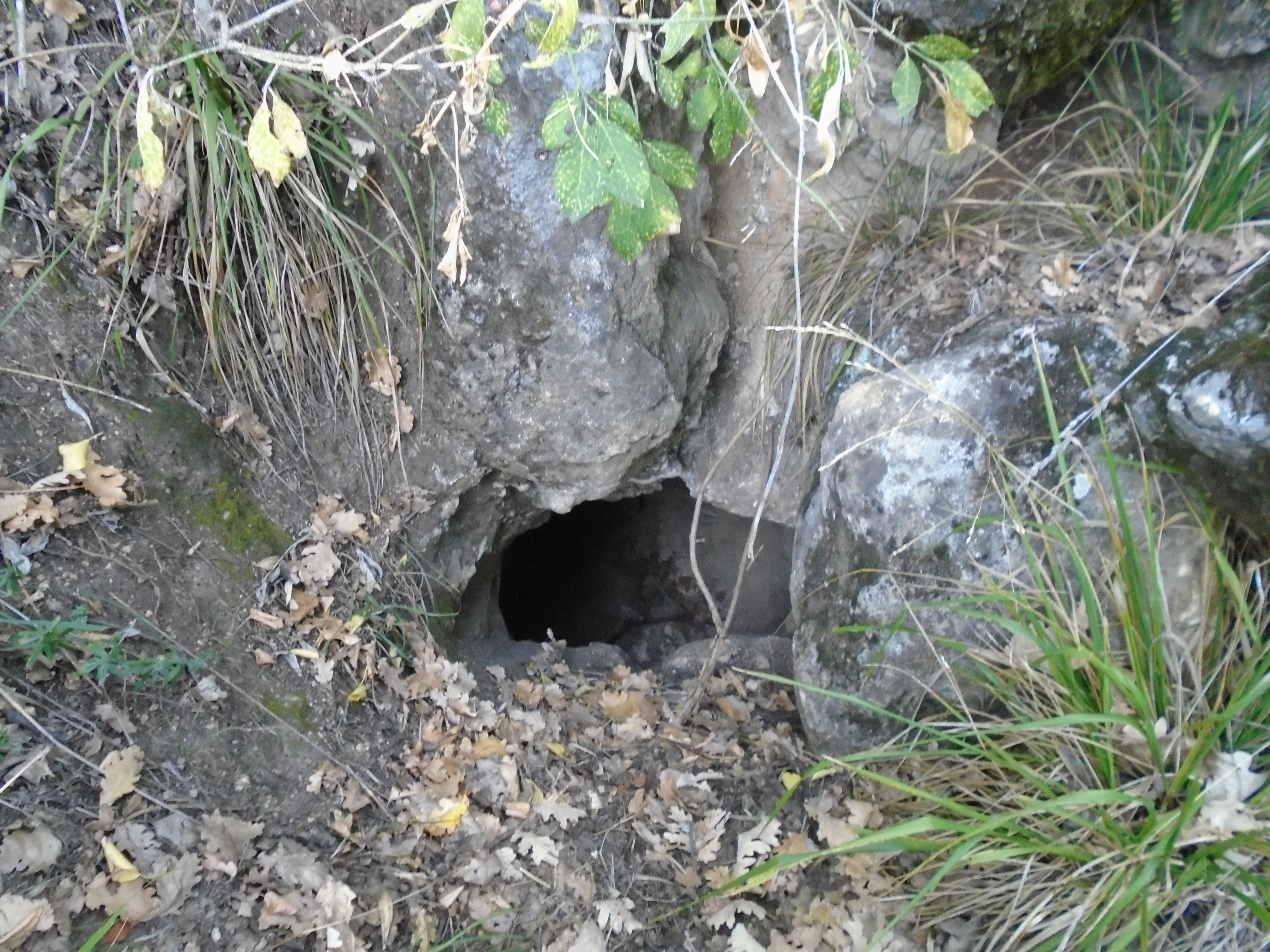 Upper entrance of Remete-hegyi No 8 Cave.